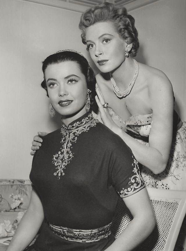 Betta St. John (left) & Deborah Kerr in Dream Wife (1953) - publicity still (cropped : see source)